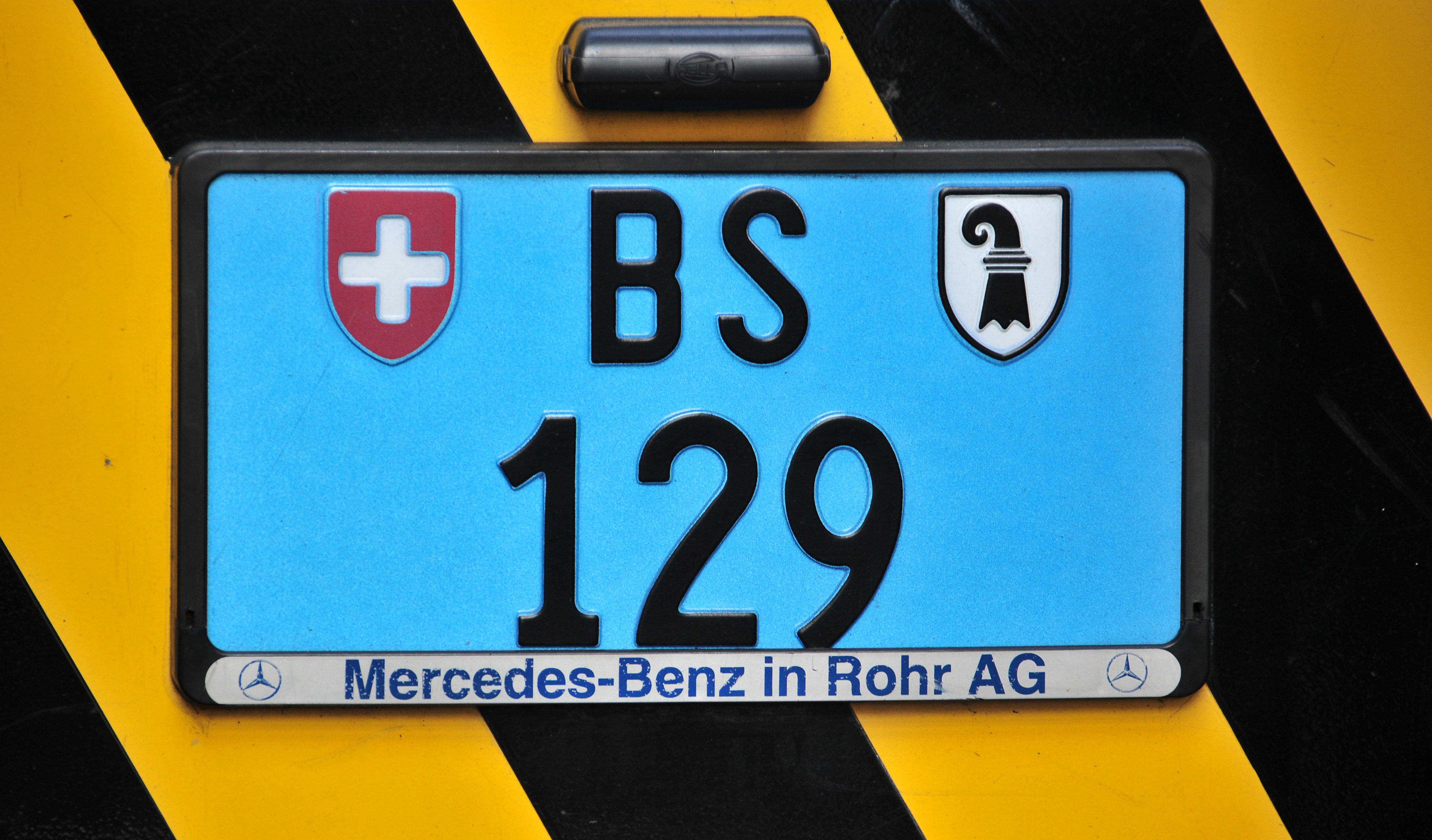 Basel, License plate of a truck